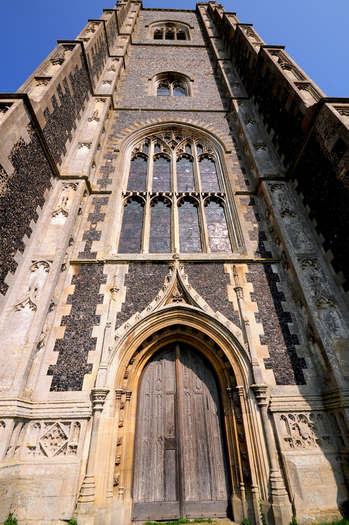 Church of Saint Peter and Saint Paul, Lavenham.